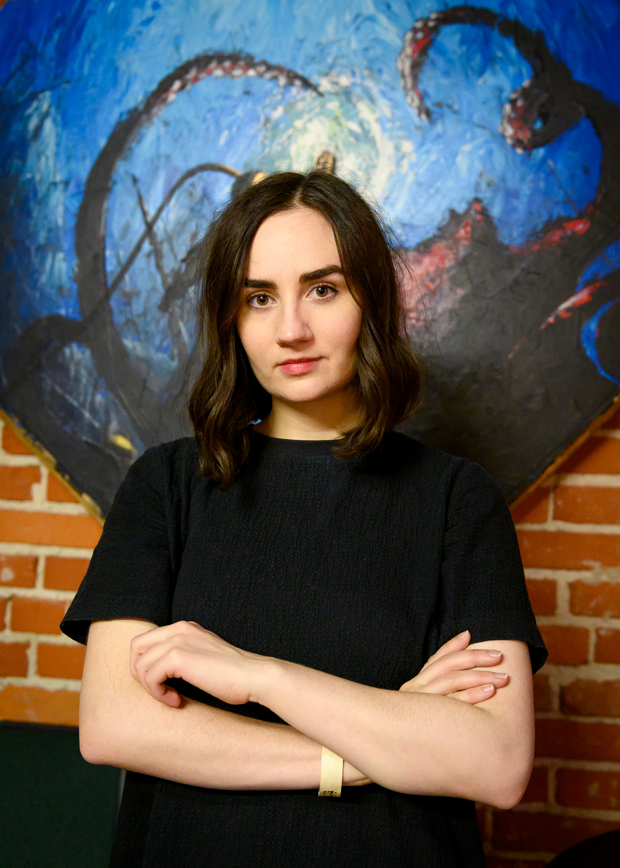 Meg Mac at the Bootleg Theater in Los Angeles, California, on Wednesday, February 27, 2019. Shot for Pass The Aux .